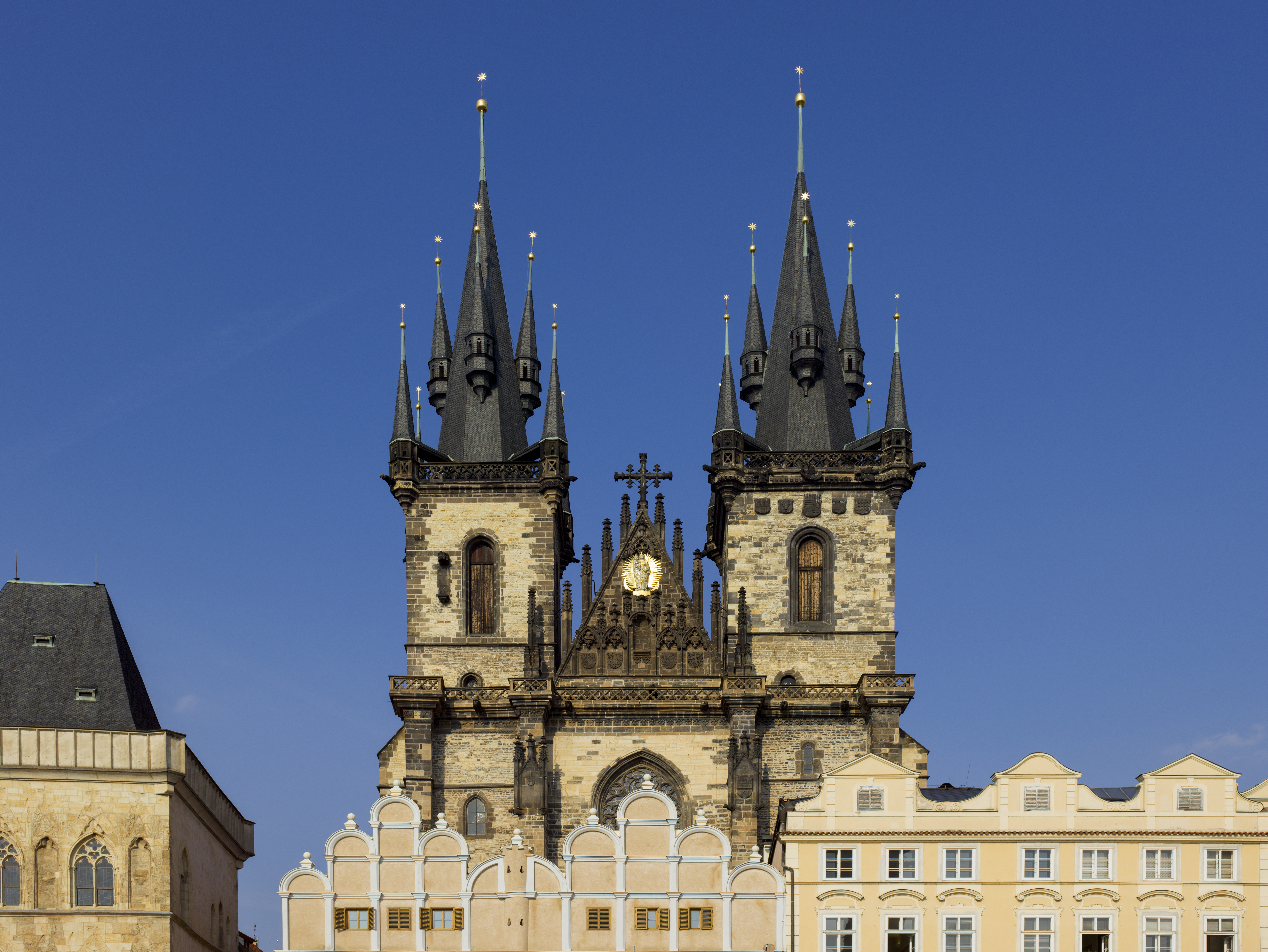 Church of Our Lady in front of Týn